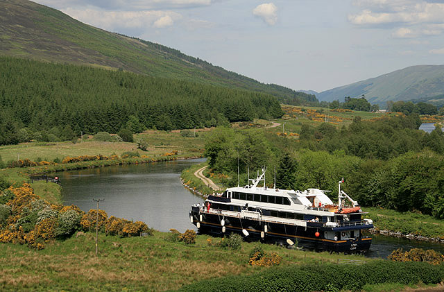 The Caledonian Canal